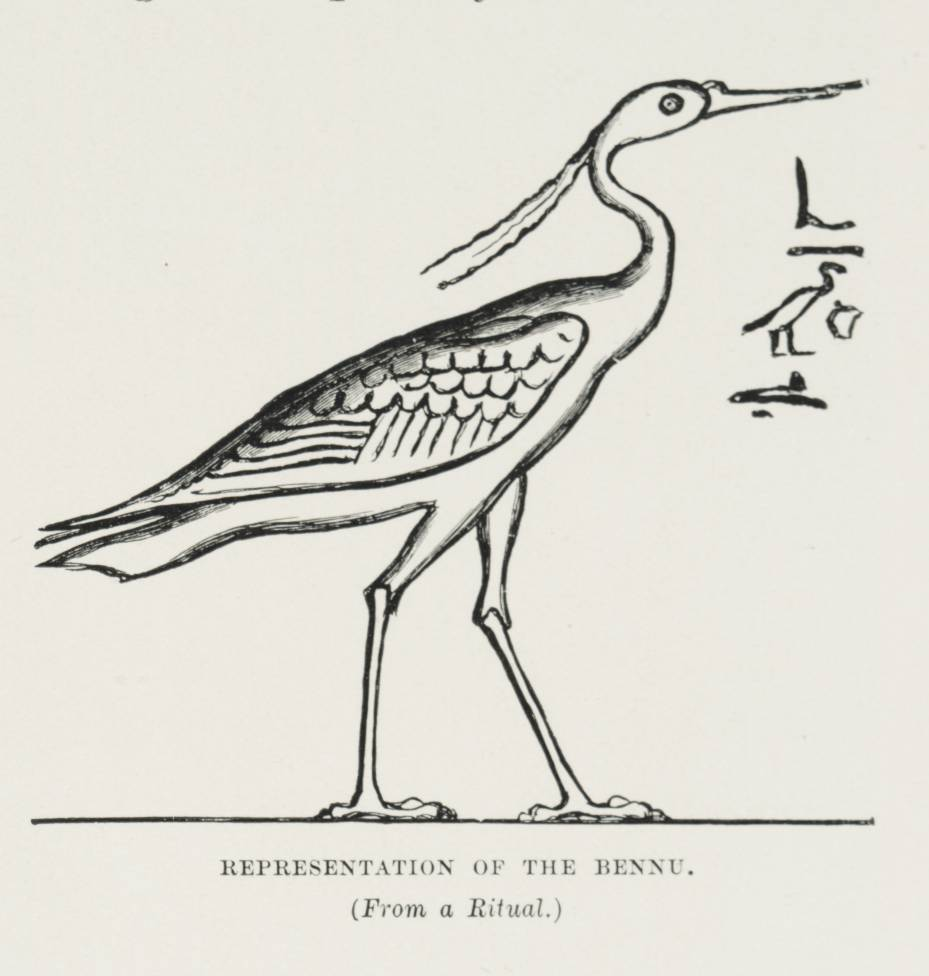 Drawing of a bennu, a heron-like bird.